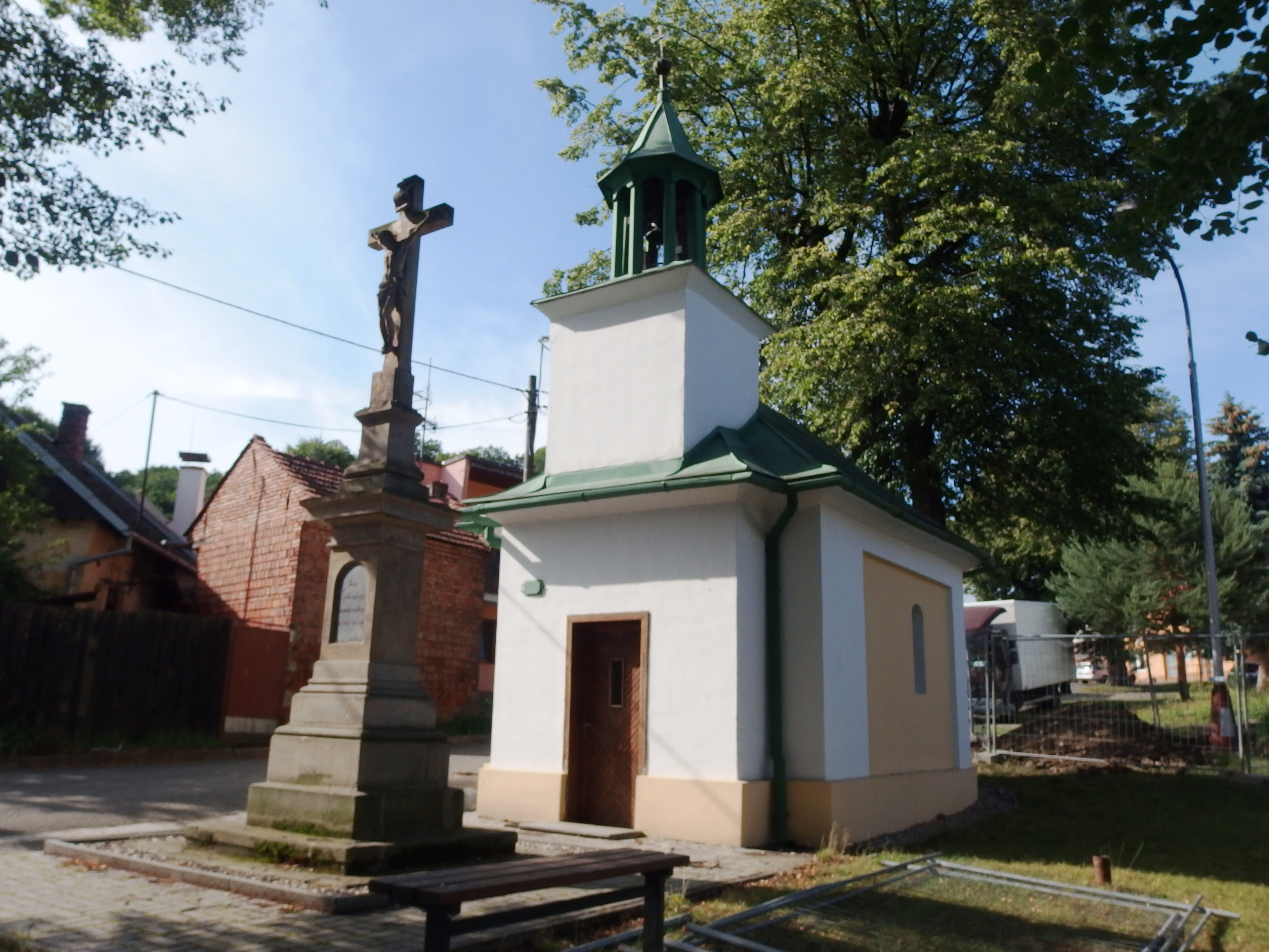 Veselíčko, Přerov District, Czech Republic, part Tupec.